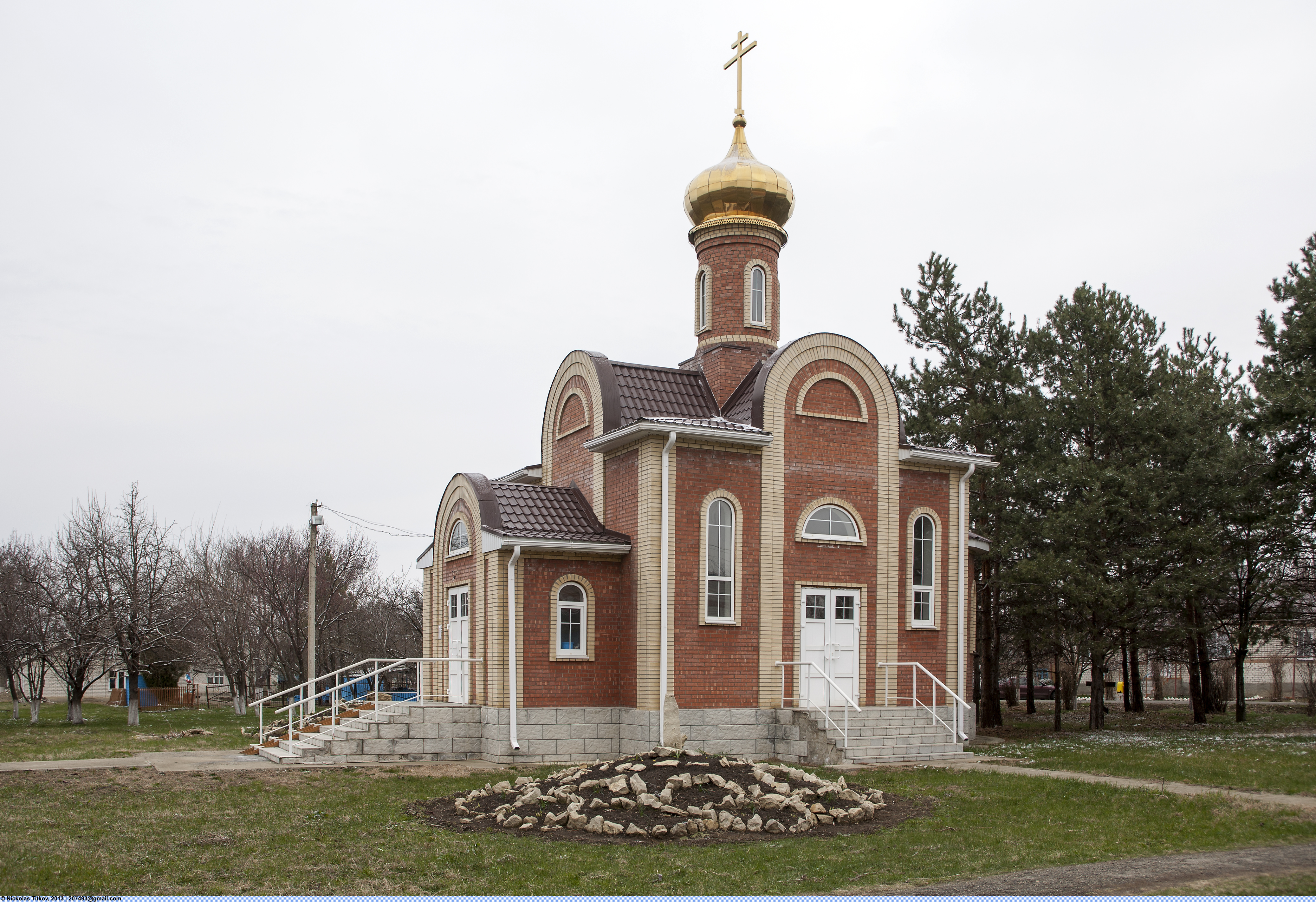 Церковь преподобного Василия Блаженного в посёлке Тоннельный Кочубеевского района Ставропольского края России